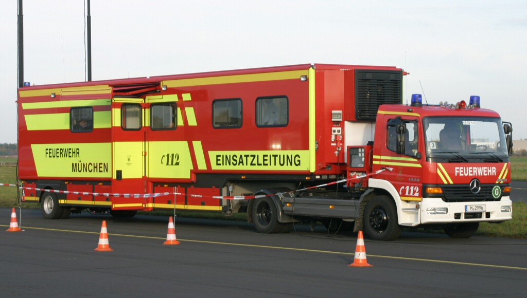 ELW 3 (KELF) of the Munich Fire Brigade, Munich, 2004